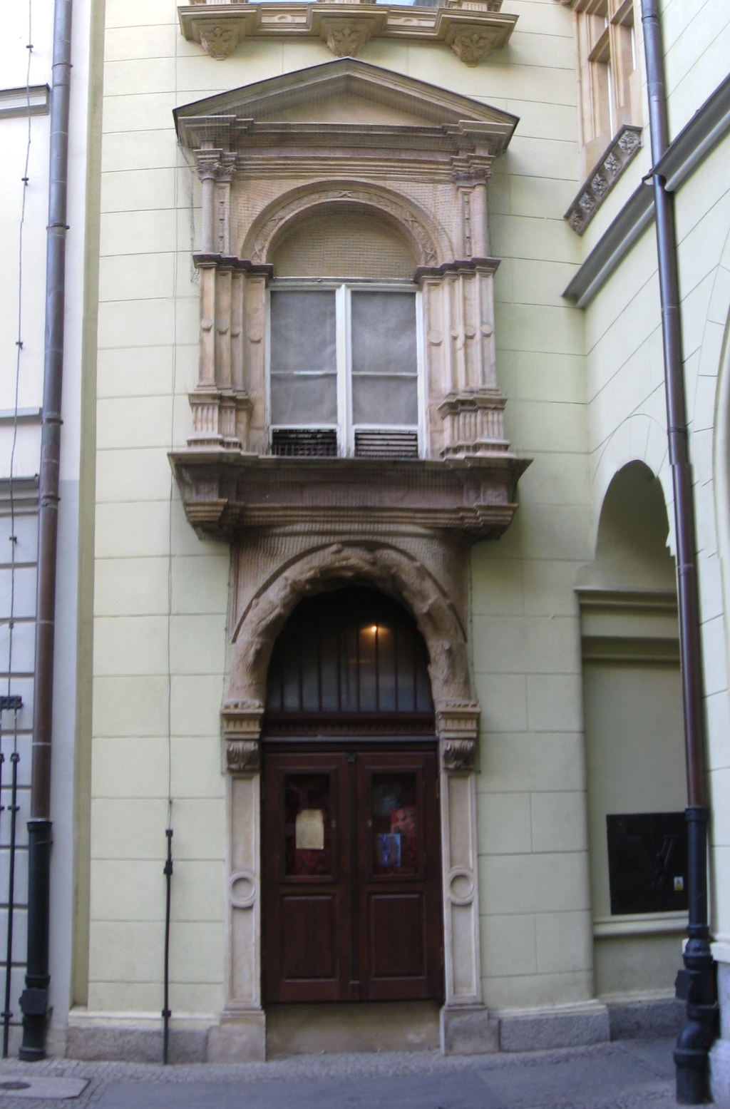 New Town Hall in Wrocław, Sukiennice Street window axis, oriel and portal which are spolia from Canvas Hall